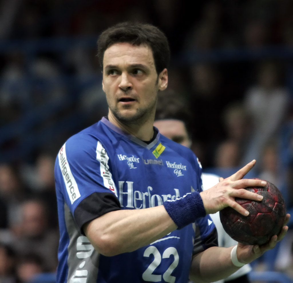 Markus Baur, on March 24th 2007 in Aschaffenburg (Germany), during the game TV Grosswallstadt - TBV Lemgo (27:29)